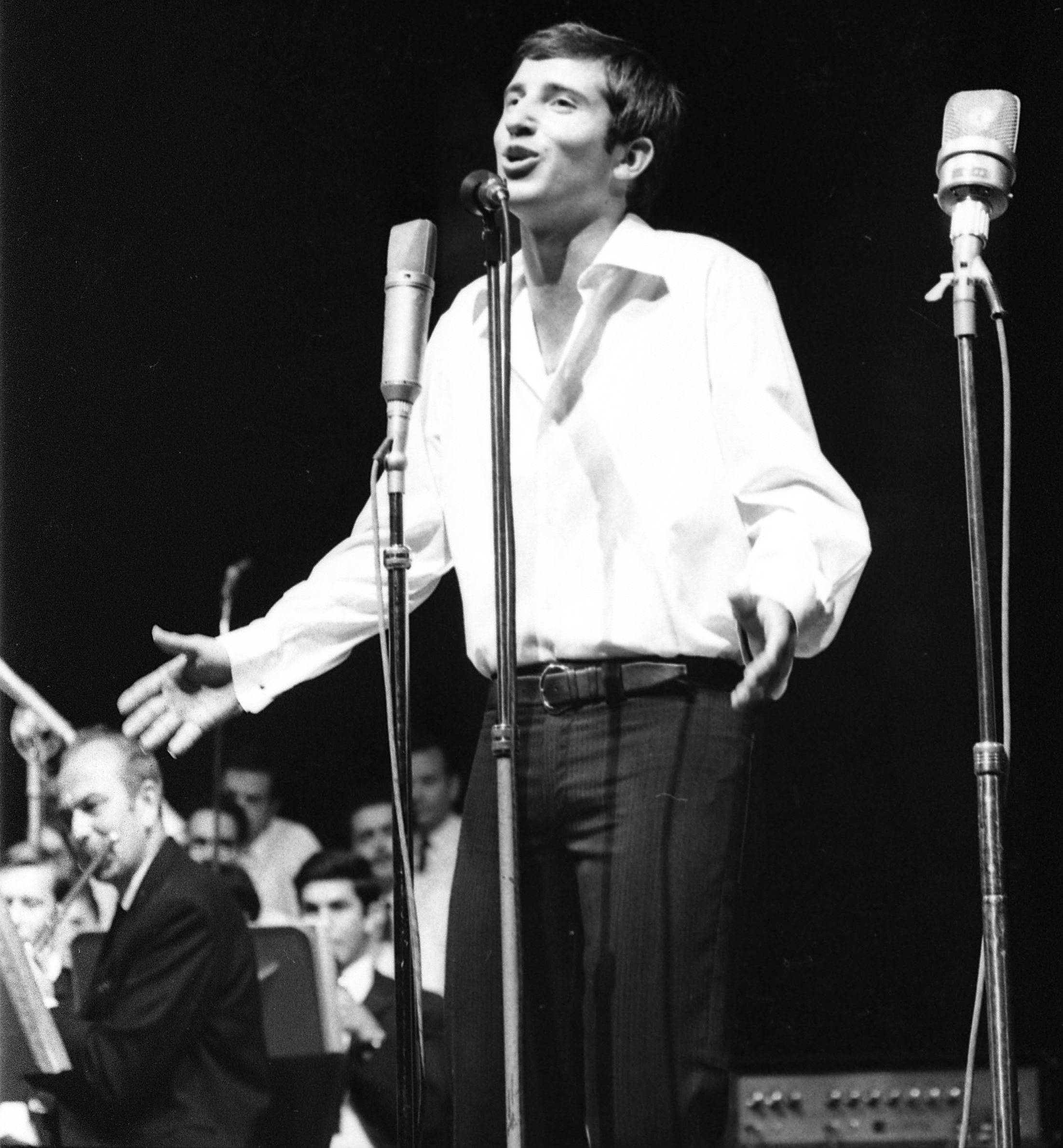 The First Hasidic Festival.